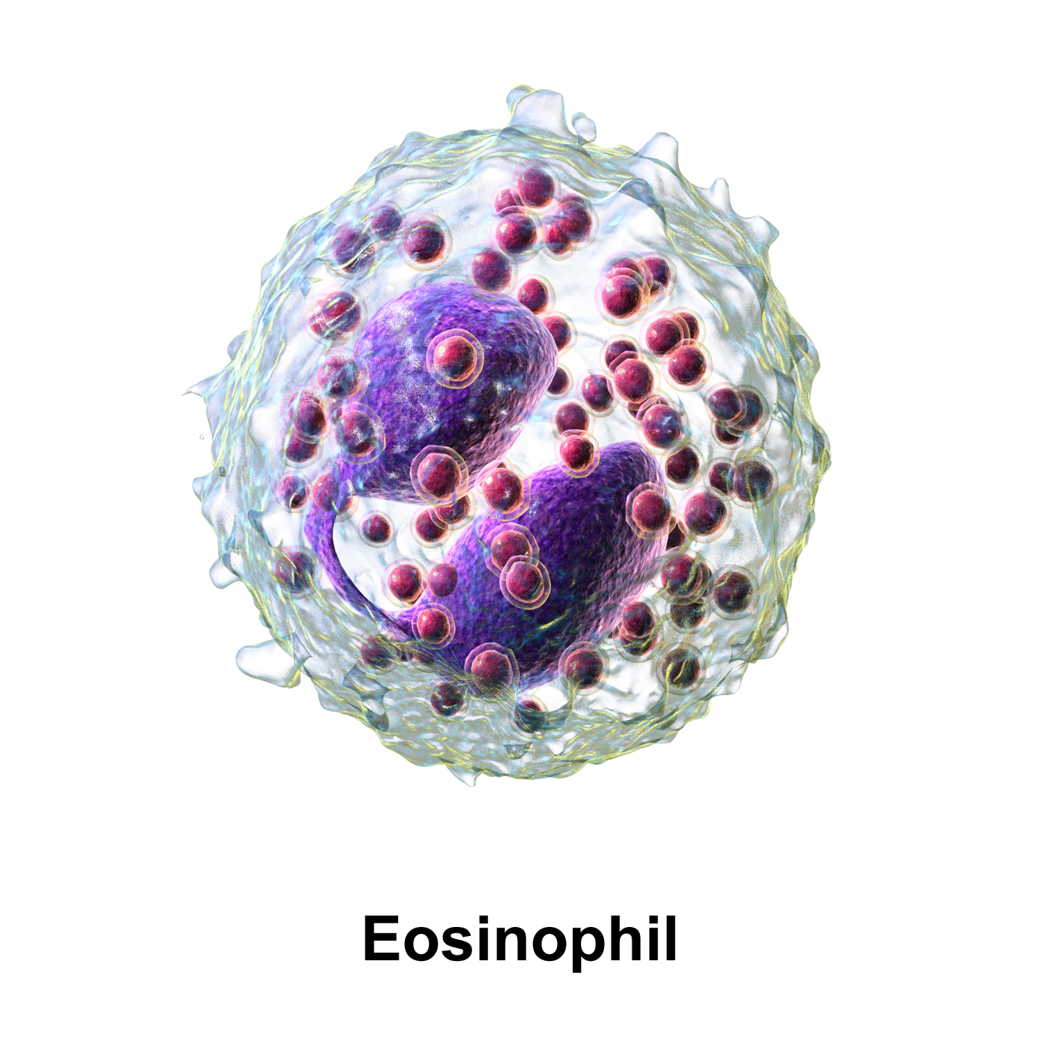 Eosinophil. See a full animation of this medical topic.